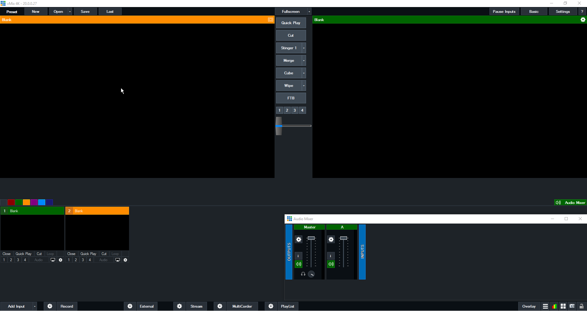 Program screenshot of vMix Vision Mixing Software for Windows 10 - Version 20.0.0.27, 4K Edition